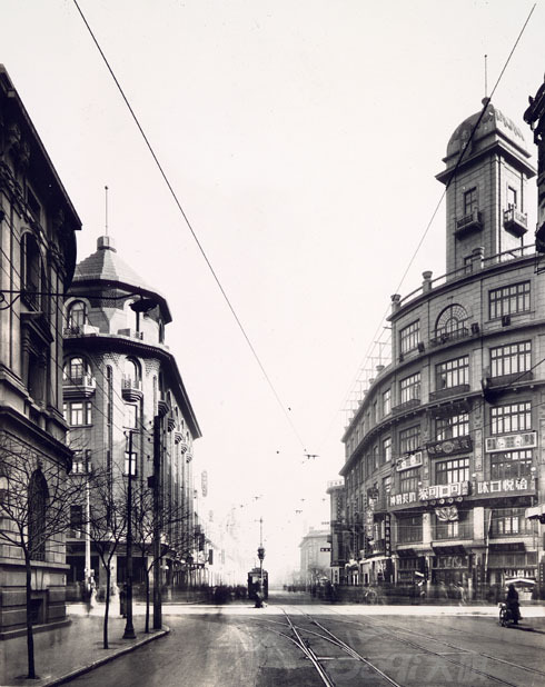 1930s,Tientsin French Concession, the crossroad of Avenue Général Foch and Rue de Chaylard. On the left side is The National Commercial Bank Limited building and Jiaotong Hotel, right side is the Huizhong Hotel. A coca-cola's billboard was hunging on it.